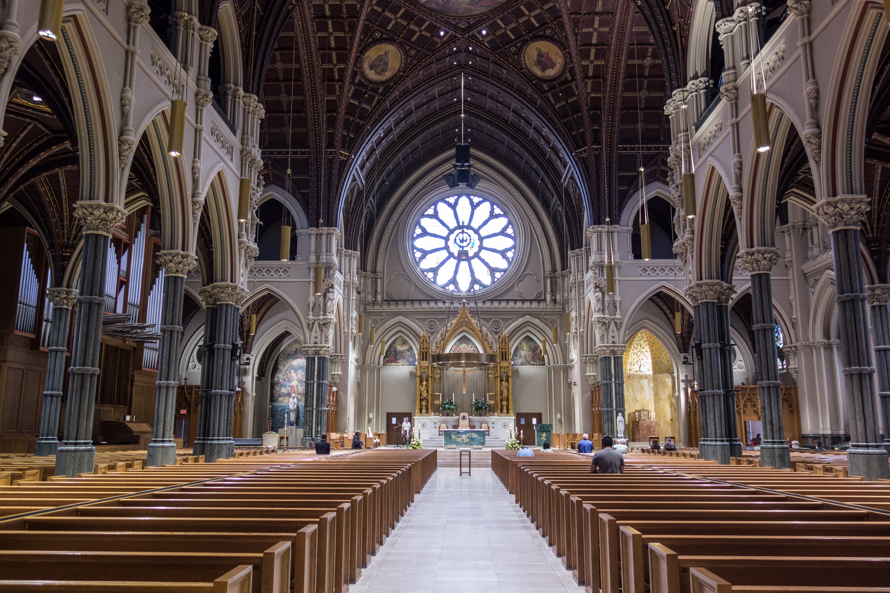 Interior of Cathedral of Sts. Peter and Paul, Providence, RI.